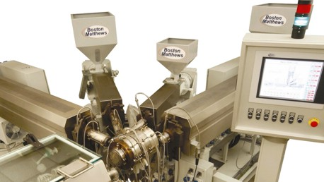 Multi-Layer Extrusion Technology